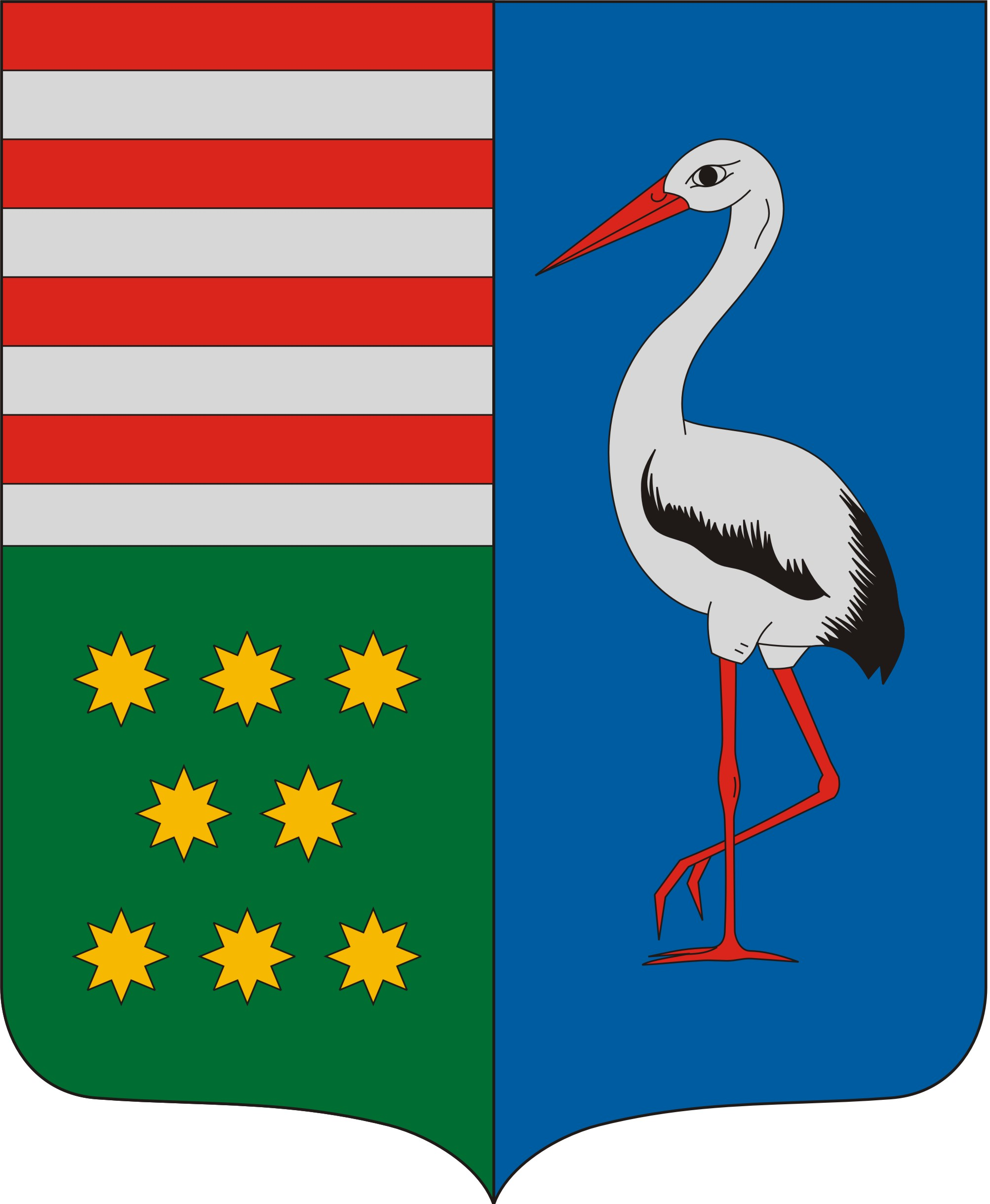 Coat of arms of Szakmár, Hungary